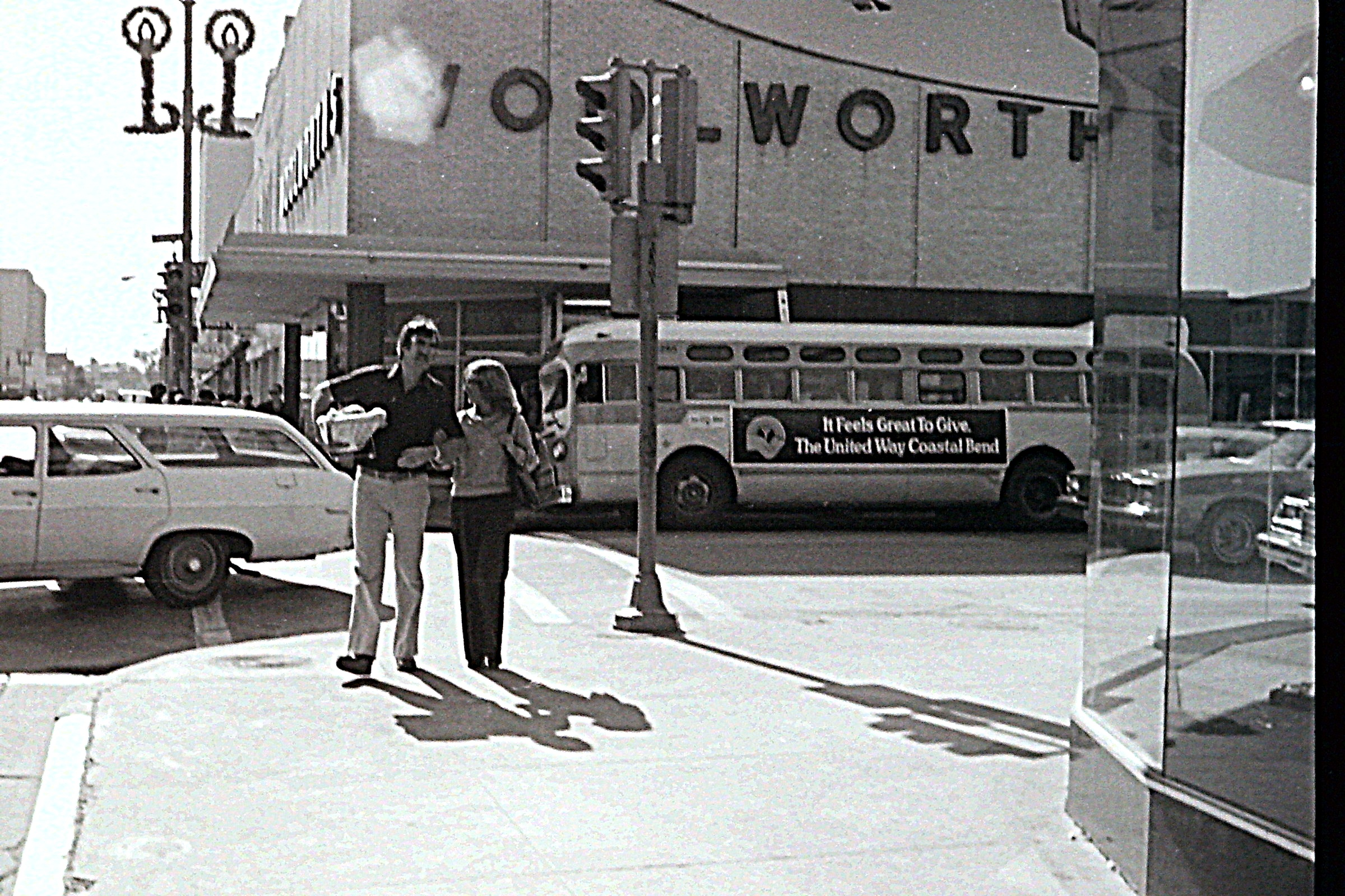 Woolworths Downtown Corpus Christi TX, 1970s